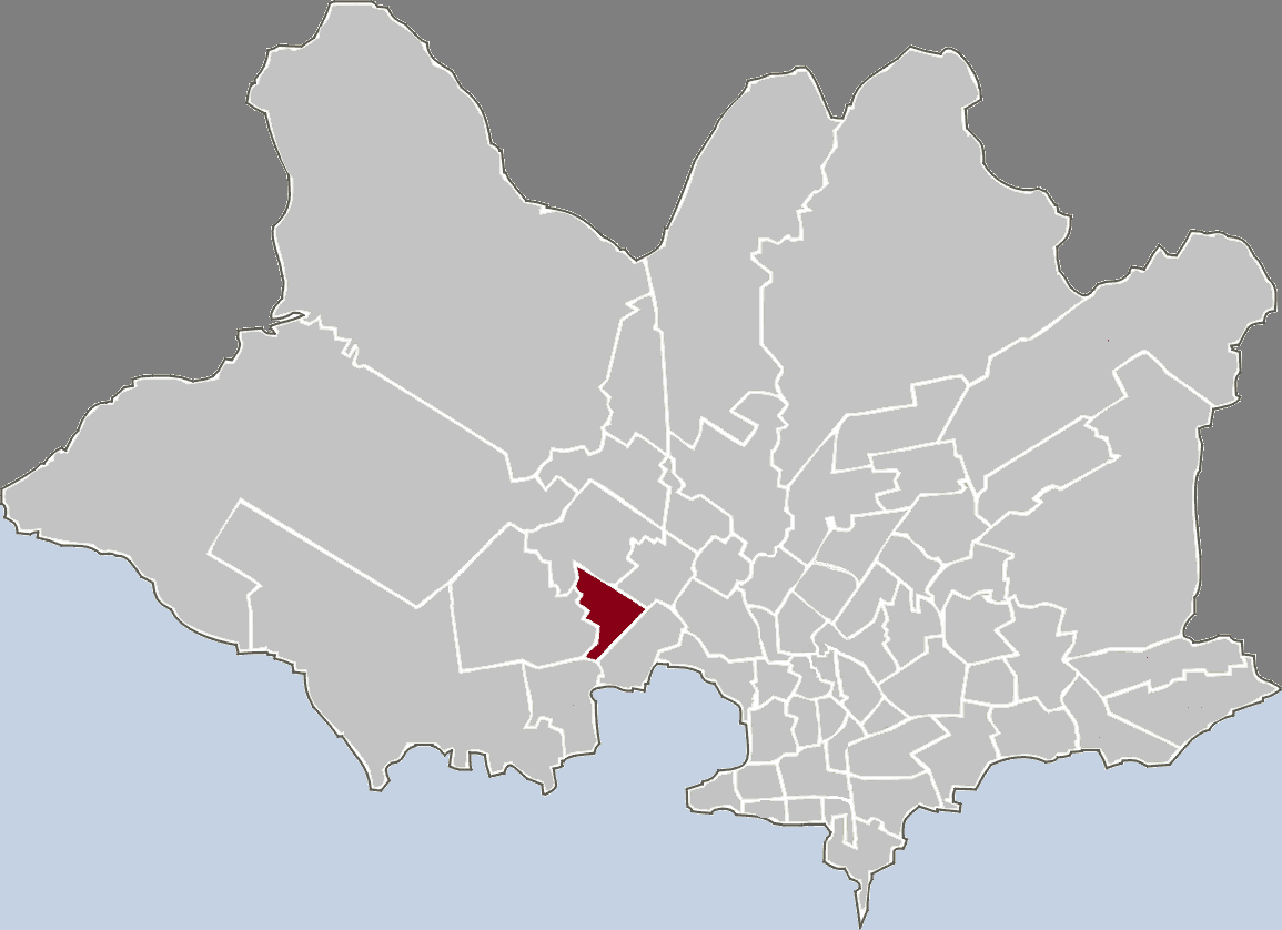 Map highlighting the given barrio in Montevideo.